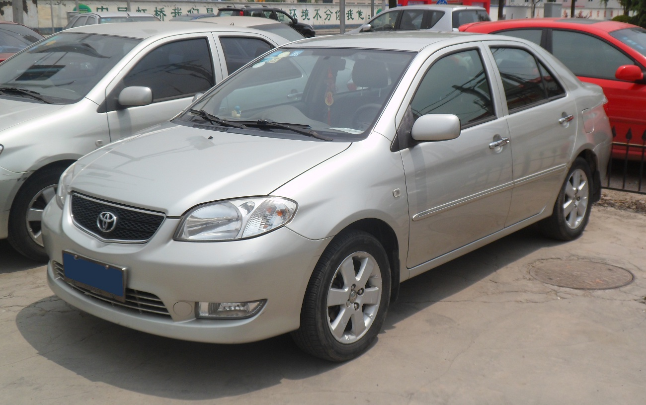 Toyota Vios XP40 photographed in Shanghai, China.